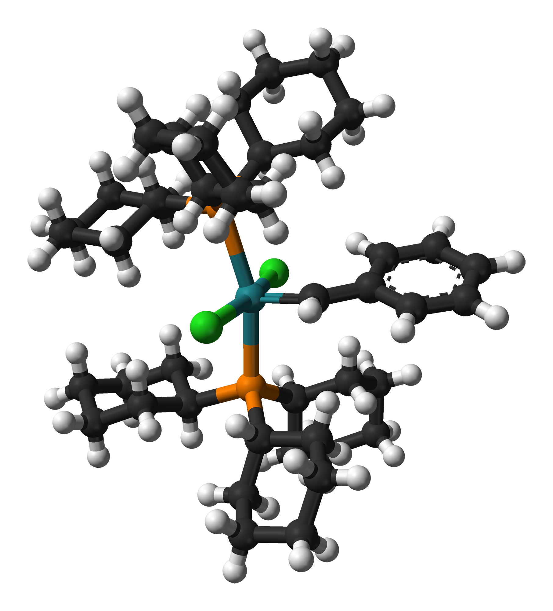 Ball-and-stick model of a molecule of Grubbs' first generation catalyst, C43H72Cl2P2Ru, i.e. [RuCl2(PCy3)2(=CHPh)]. Colour code: Carbon, C: grey-black Hydrogen, H: white Chlorine, Cl: green Phosphorus, P: orange Ruthenium, Ru: turquoise Structure (determined by X-ray crystallography) reported in Organometallics (2010) 29, 2735–2751 (IKORIK). Model manipulated in CrystalMaker 8.5. Image generated in Accelrys DS Visualizer.